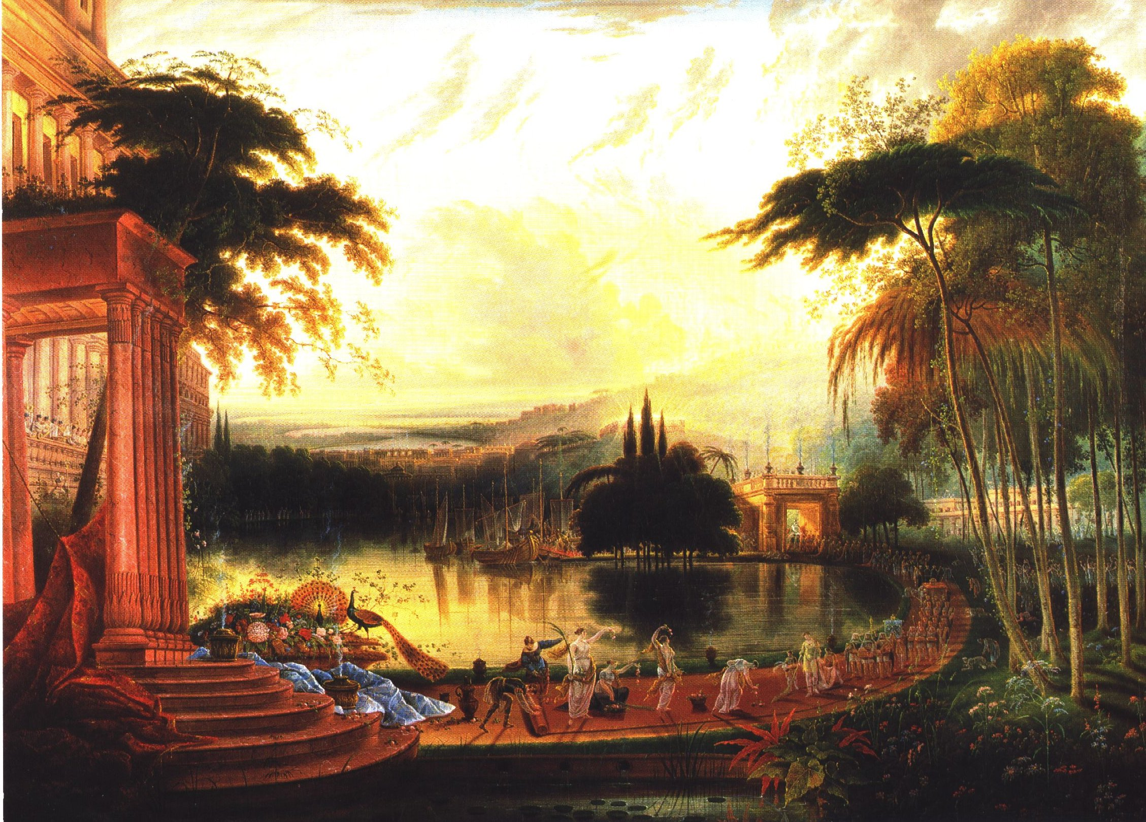 A romantic landscape with the Arrival of the Queen of Sheba